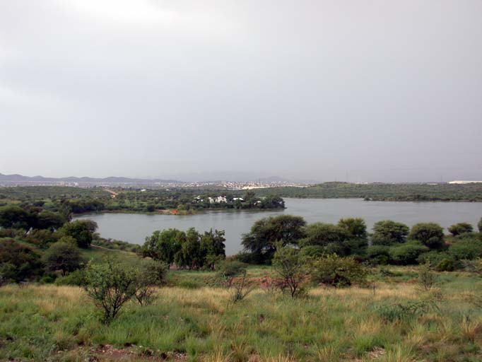 Picture of the Goreangab Dam near Windhoek, Namibia